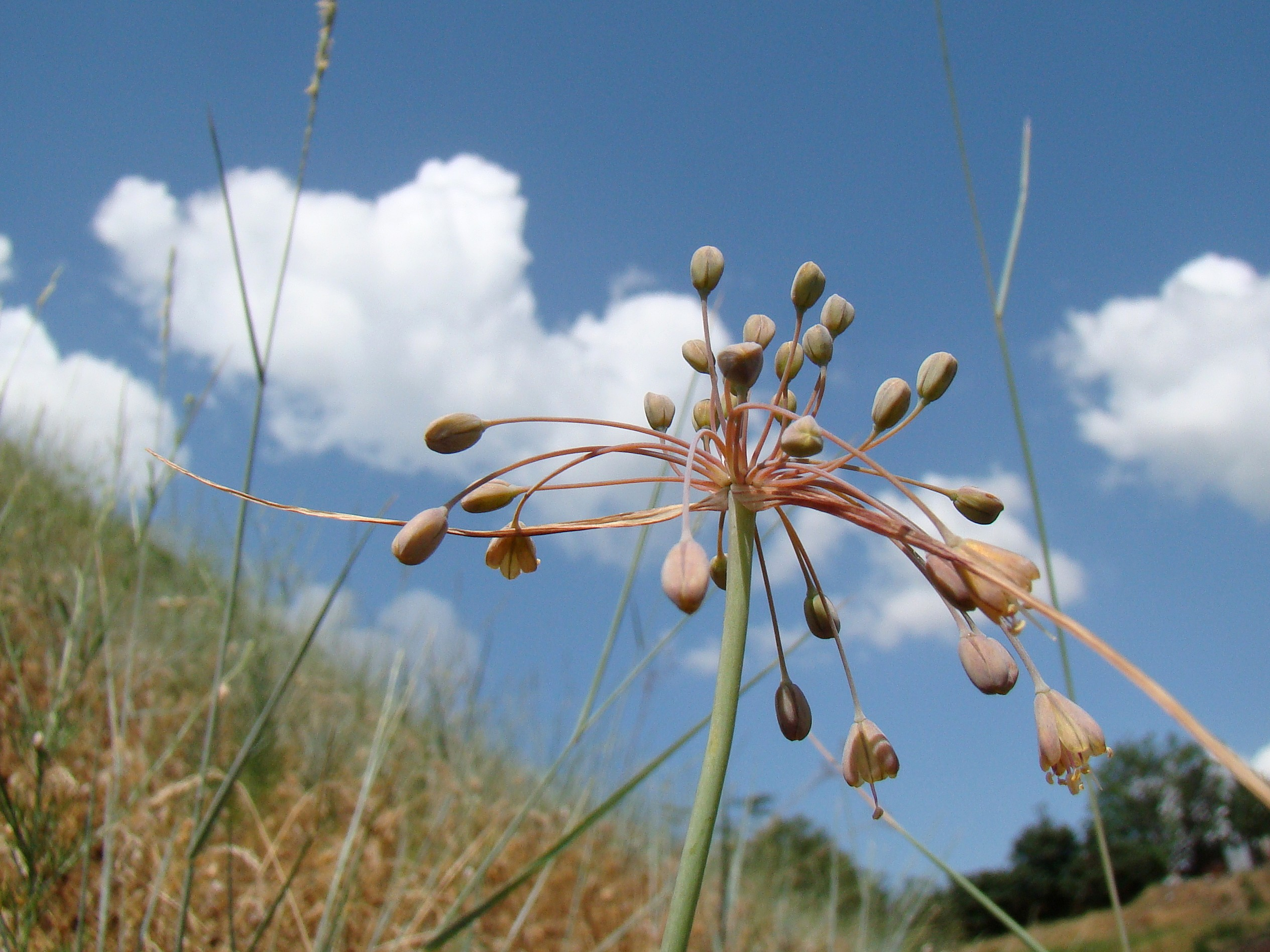 Allium paczoskianum. Russia, Krasnodar kray, Ust'-Labinsk. Coast of Kuban River.